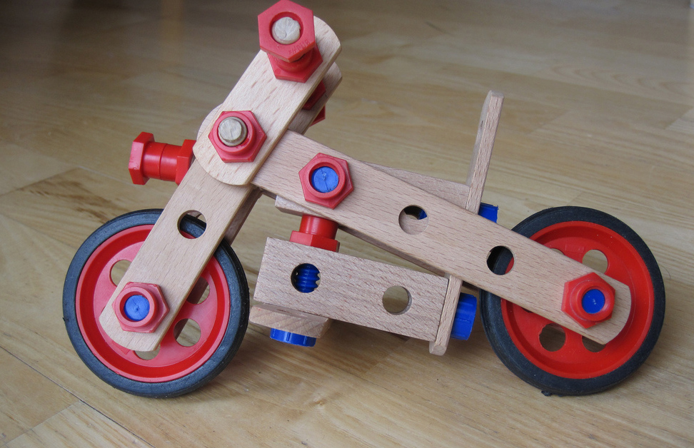 Small motorcycle made with the Danish Bilofix wooden toysDansk: Lille motorcykel lavet med det danske Bilofix trælegetøj